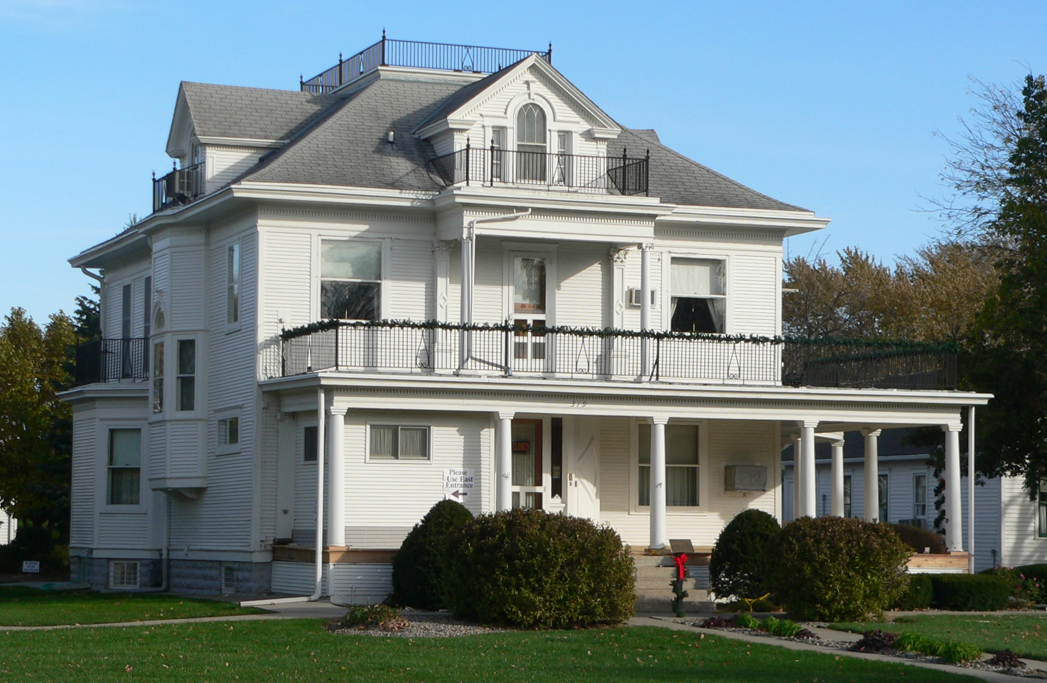 E.C. Houston House in Tekamah, Nebraska; seen from the northwest. The Classical Revival house was built in 1904, and is listed in the National Register of Historic Places. It is now the Burt County Museum.